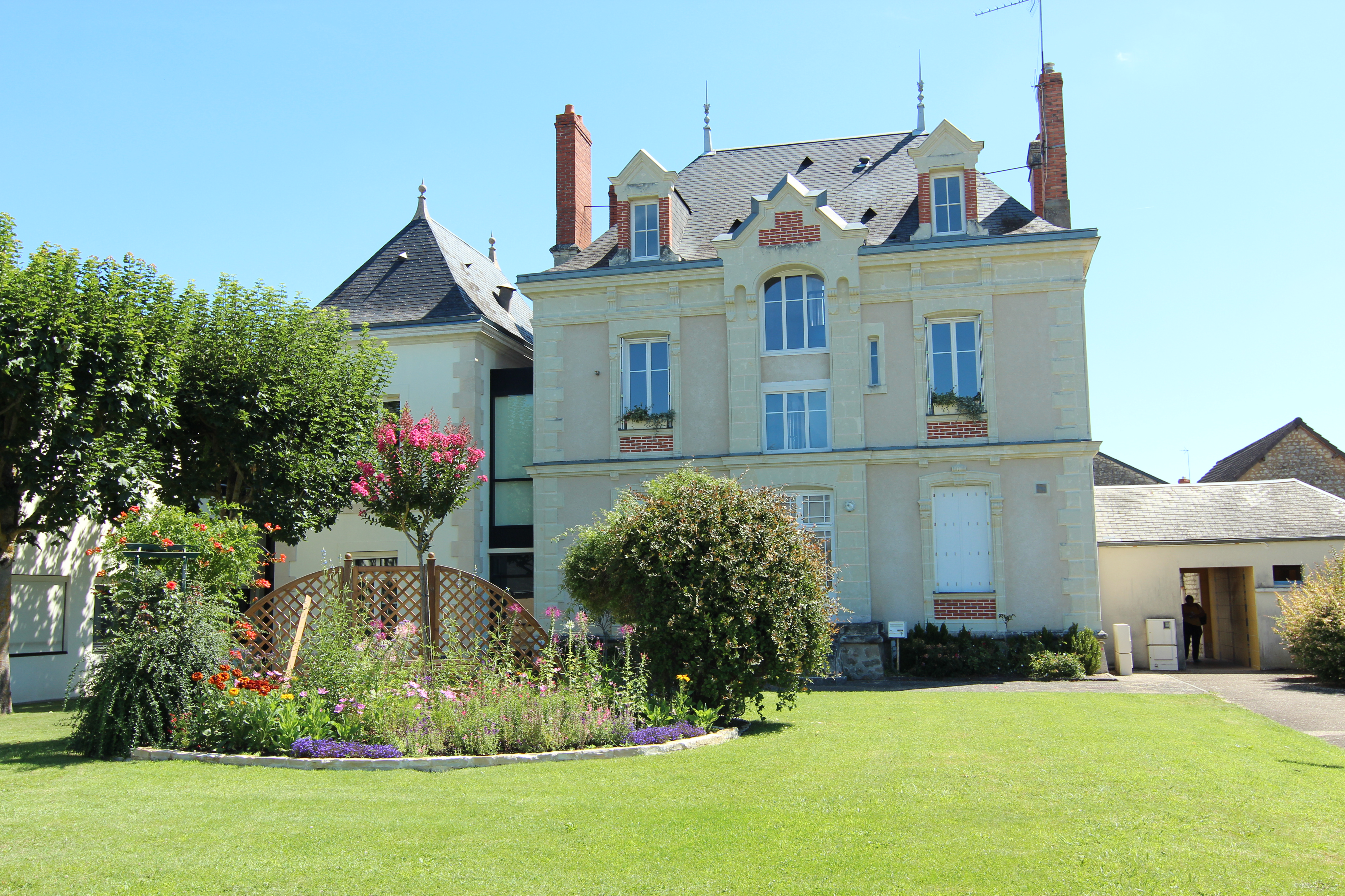 Town hall of Cenon-sur-Vienne, France. Object location46° 46′ 25.43″ N, 0° 32′ 10.36″ E This picture as been uploaded as part of L'Été des régions Wikipédia.